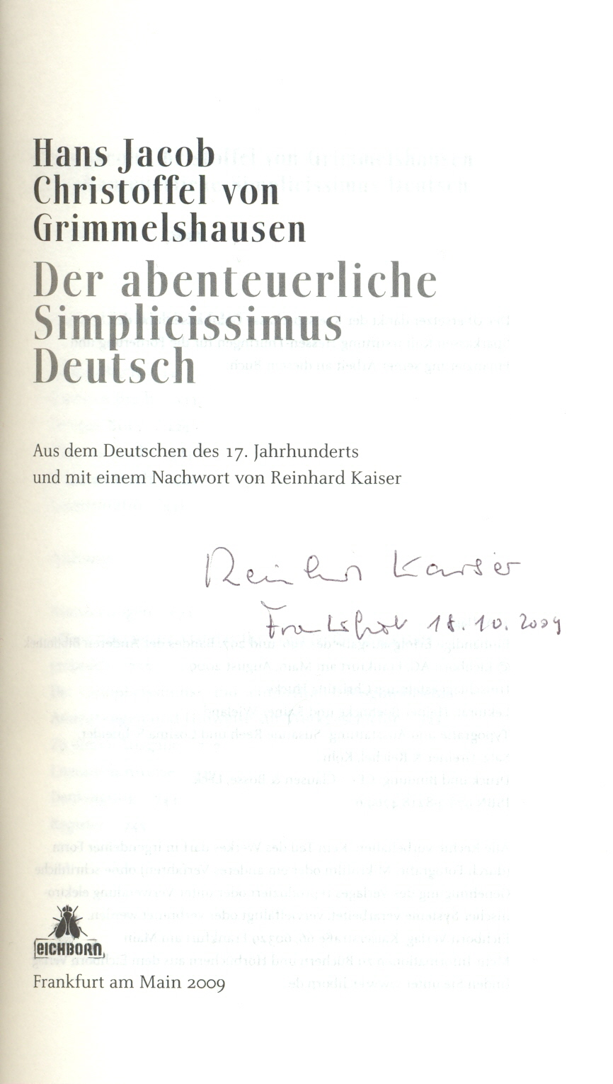 Autograph from Reinhard Kaiser, German writer